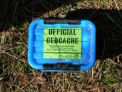 Geocache used in the Geocaching sport. Loonse en Drunense Duinen in The Netherlands